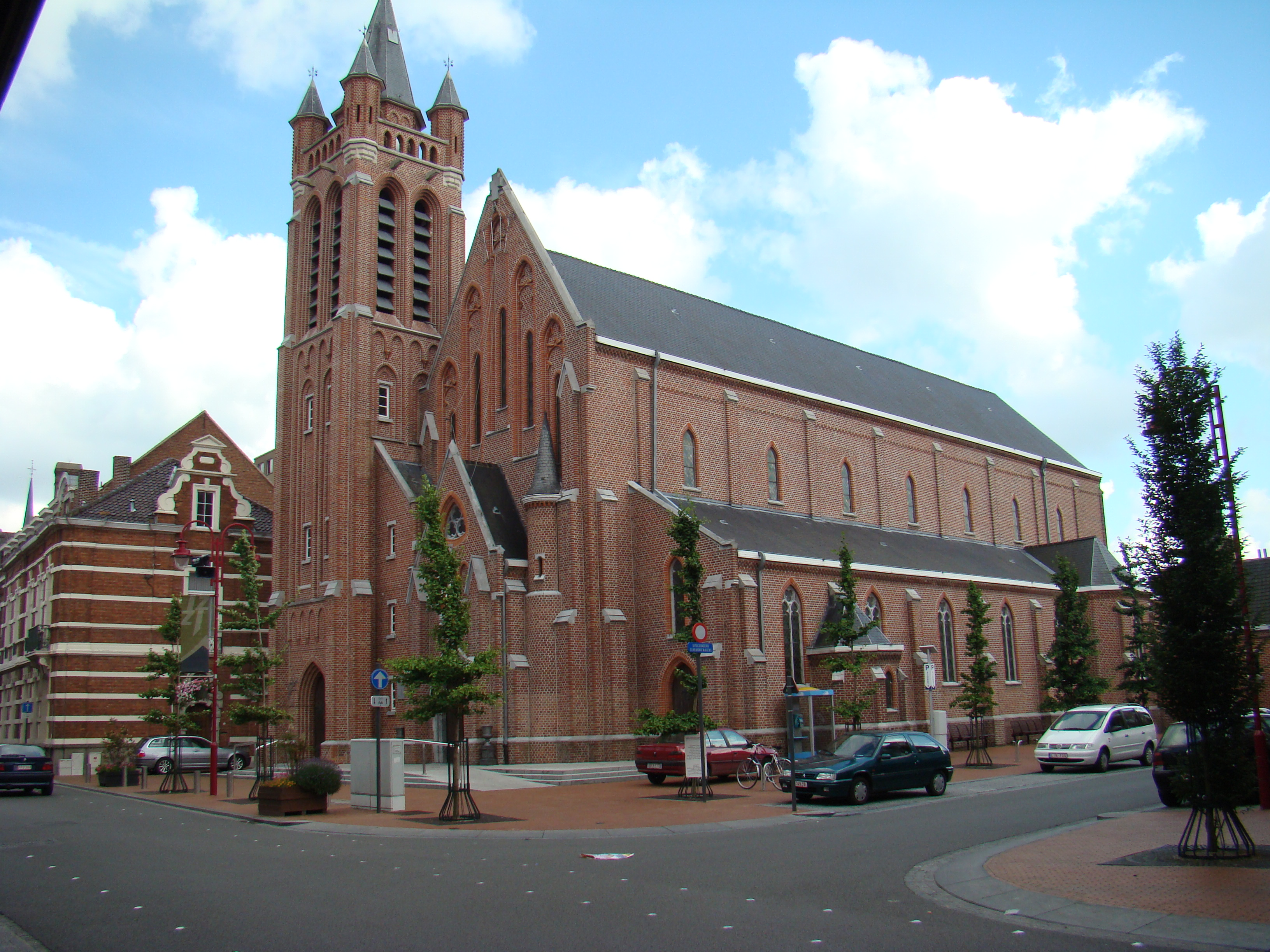 Heilig-Hart church Izegem (West Flanders, Belgium)